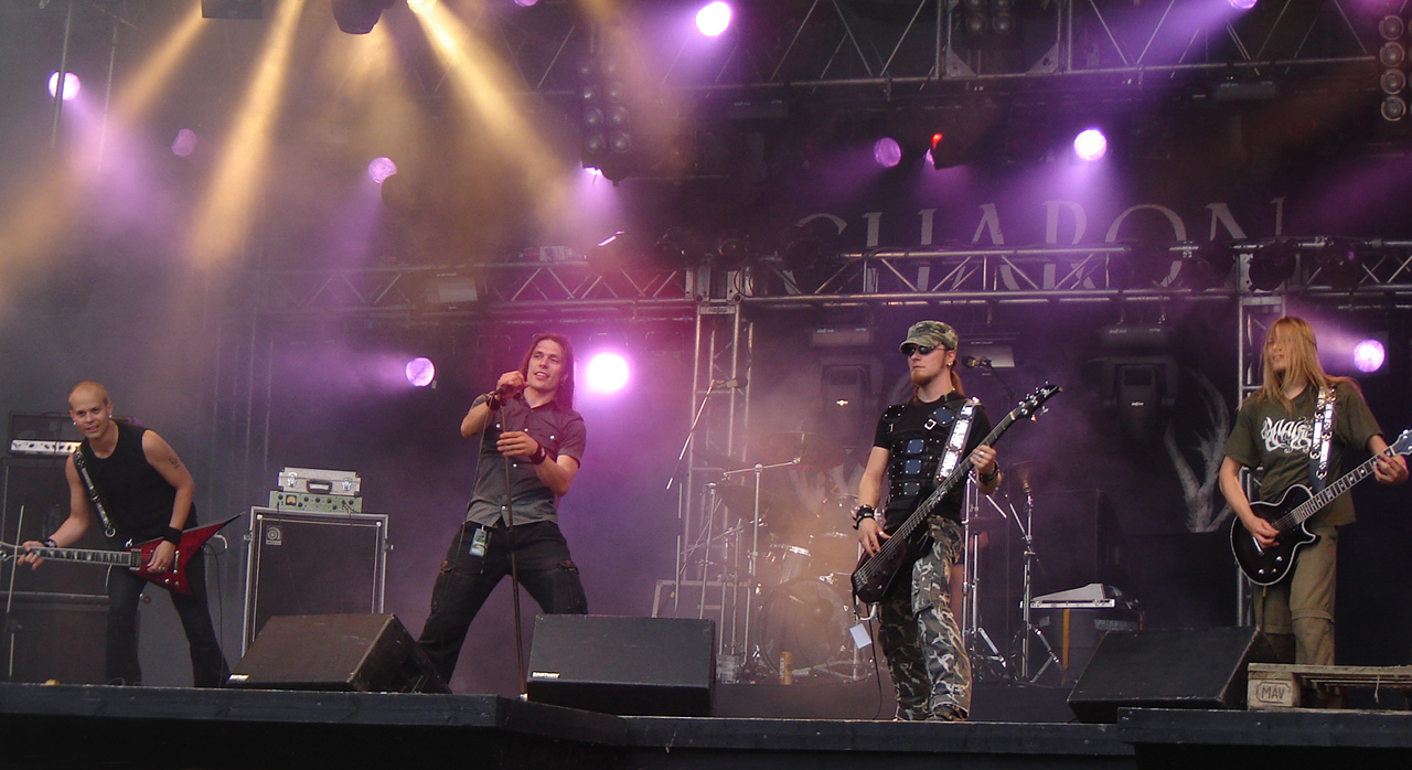 Charon at Nummirock, 2006